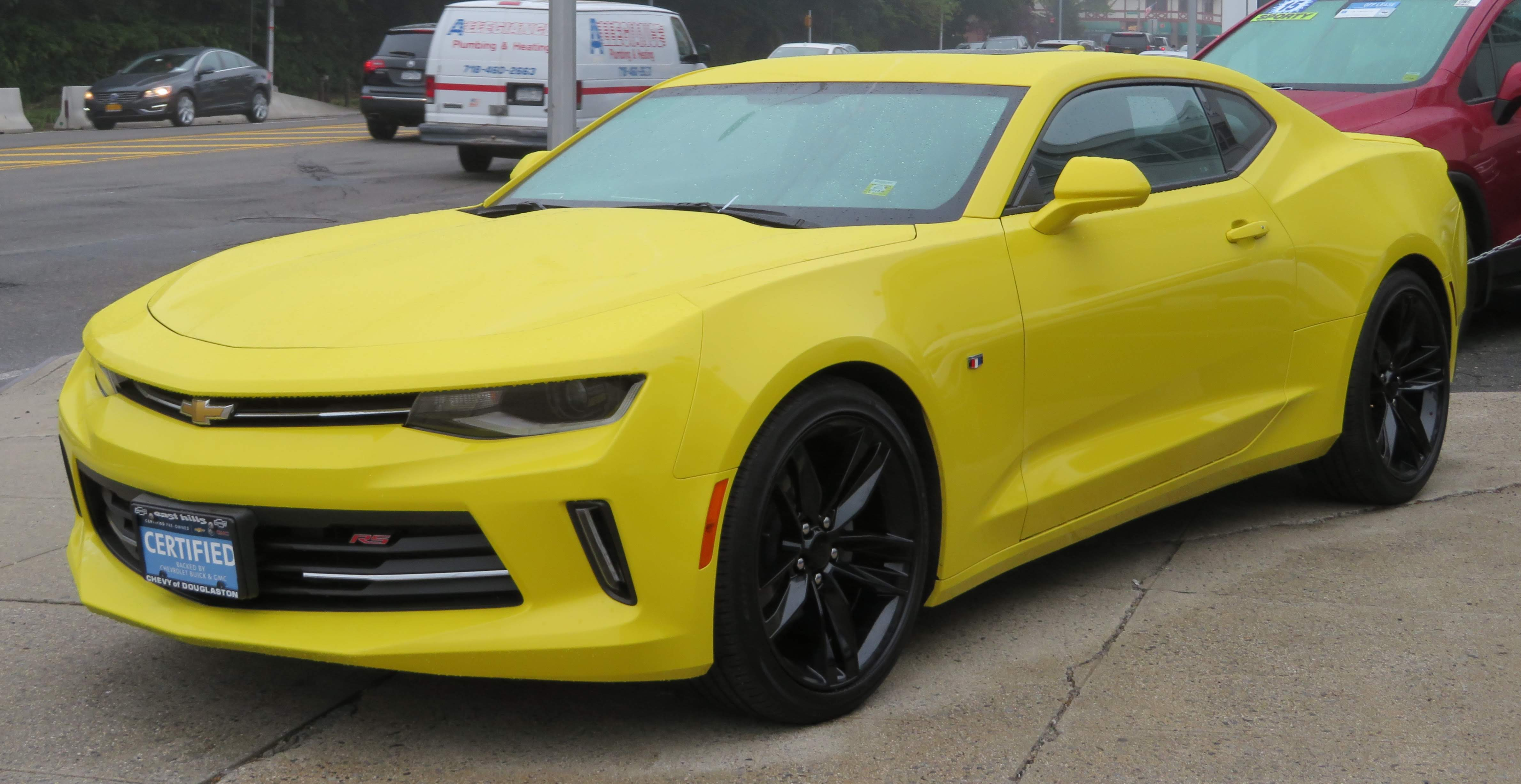 Photographed at Chevrolet Dealer, Little Neck, New York